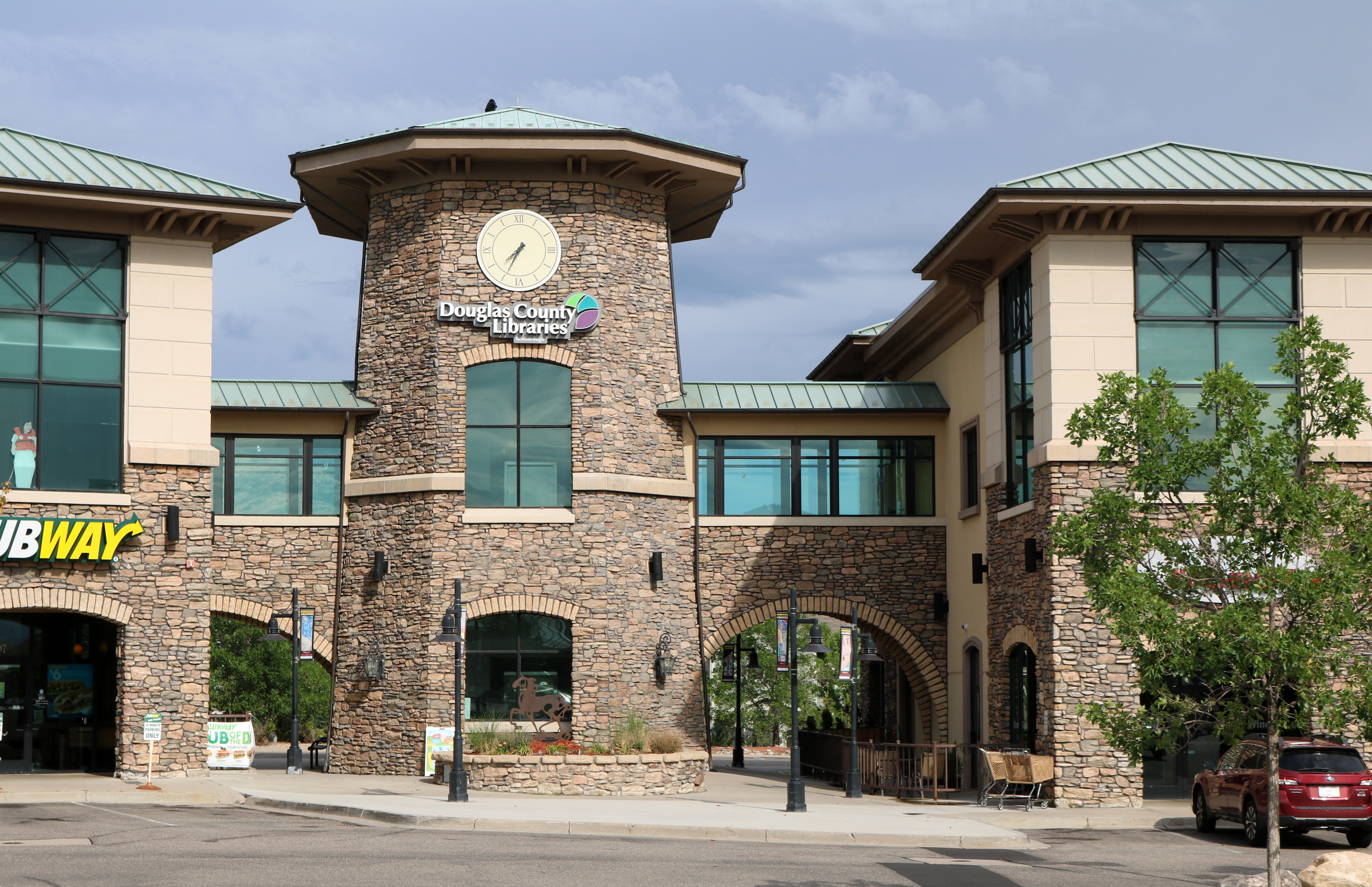 The Roxborough branch of Douglas County Libraries. It's located in a shopping center at 8357 North Rampart Range Road in Roxborough Park, Colorado